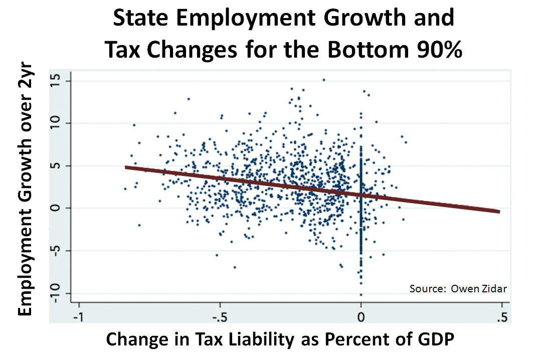 State employment growth and tax changes for the bottom 90% in the United States.